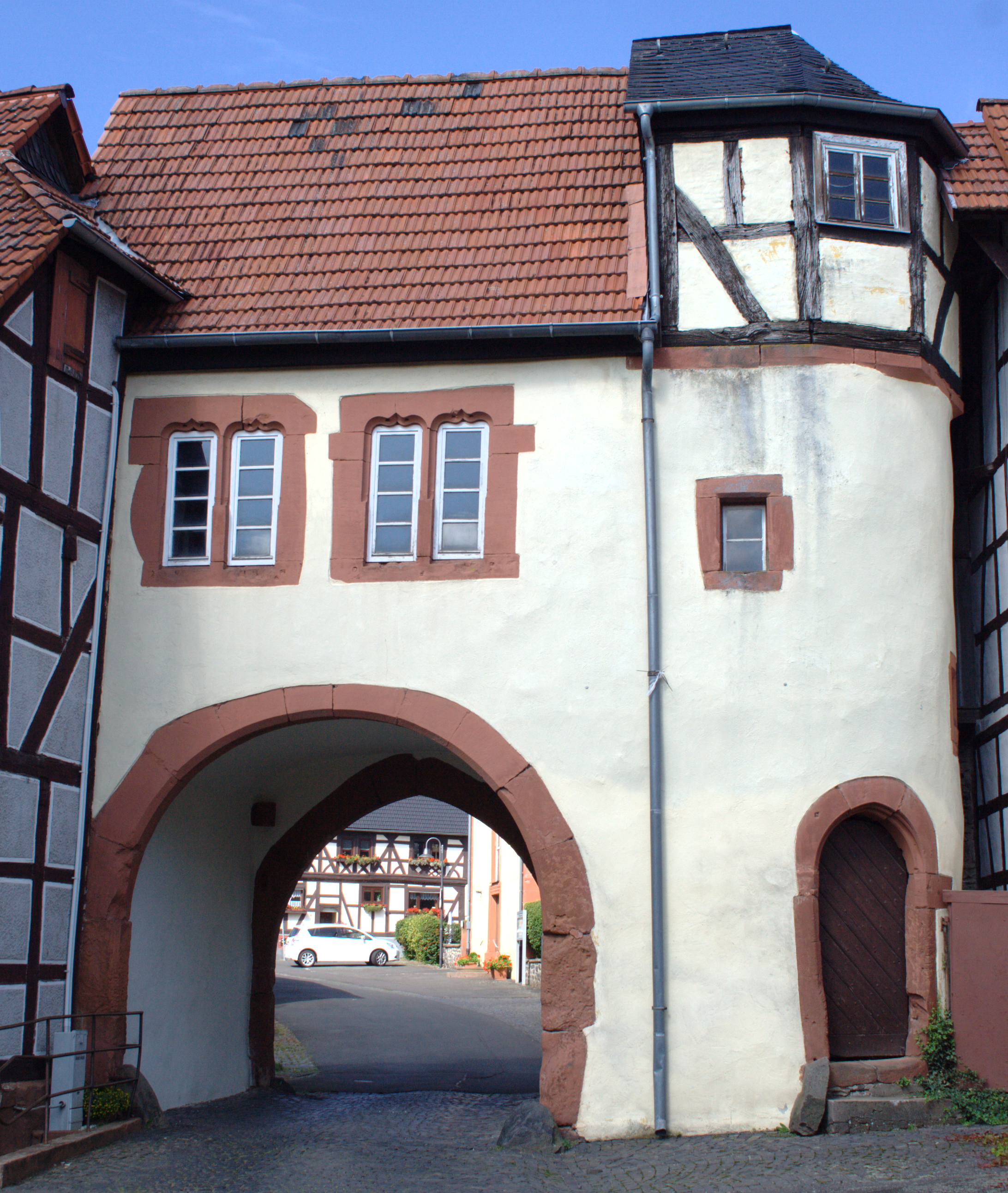 Gate in Gedern / Wenings Burgstraße 7 / Hesse / GermanyThis is a photograph of an architectural monument.